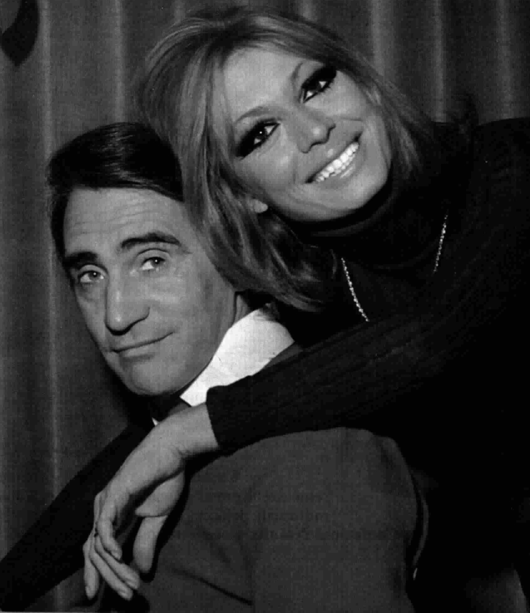 Italian actors Alida Chelli and Walter Chiari